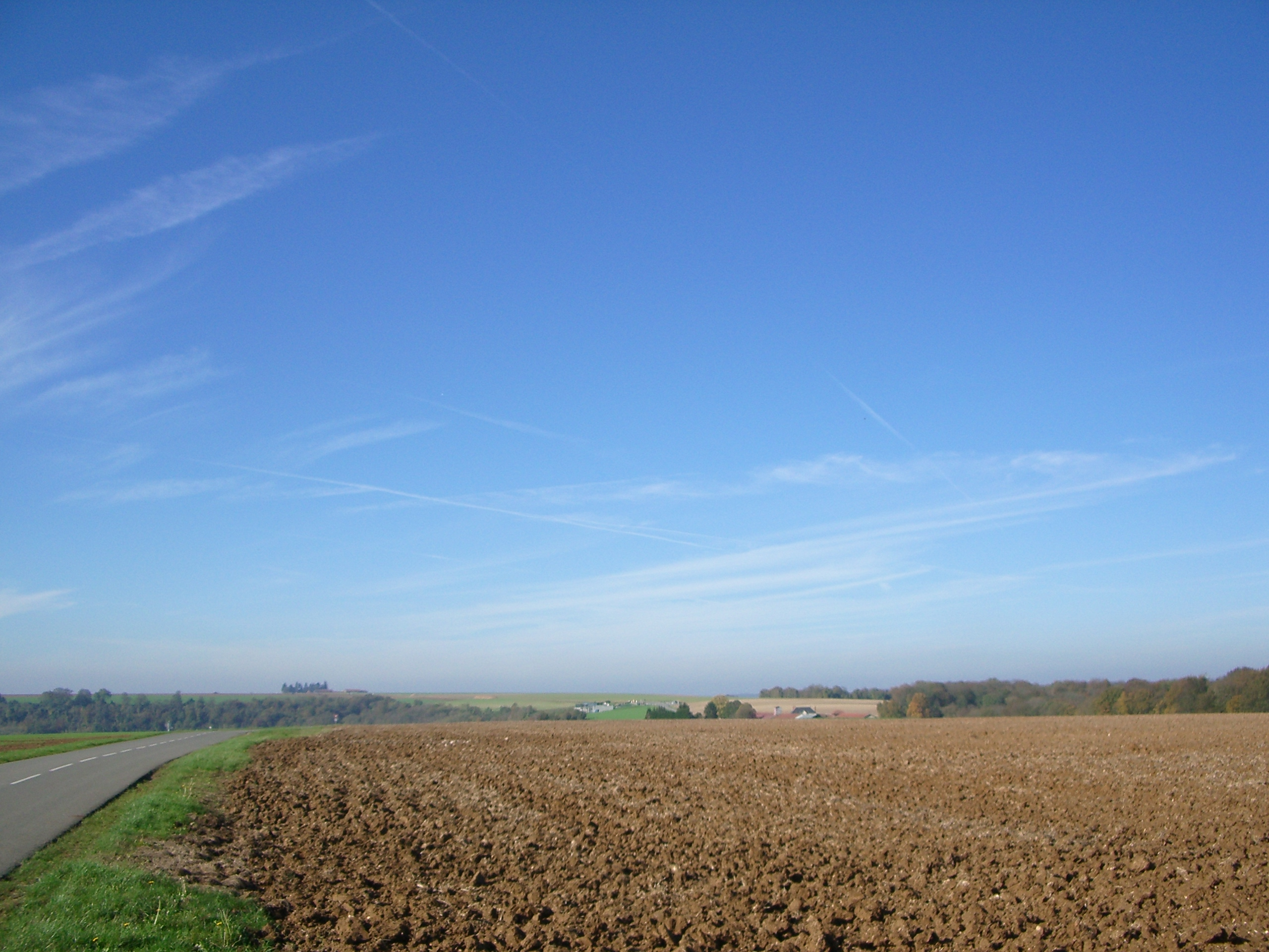 Plateau of Chemin des Dames, Aisne, France